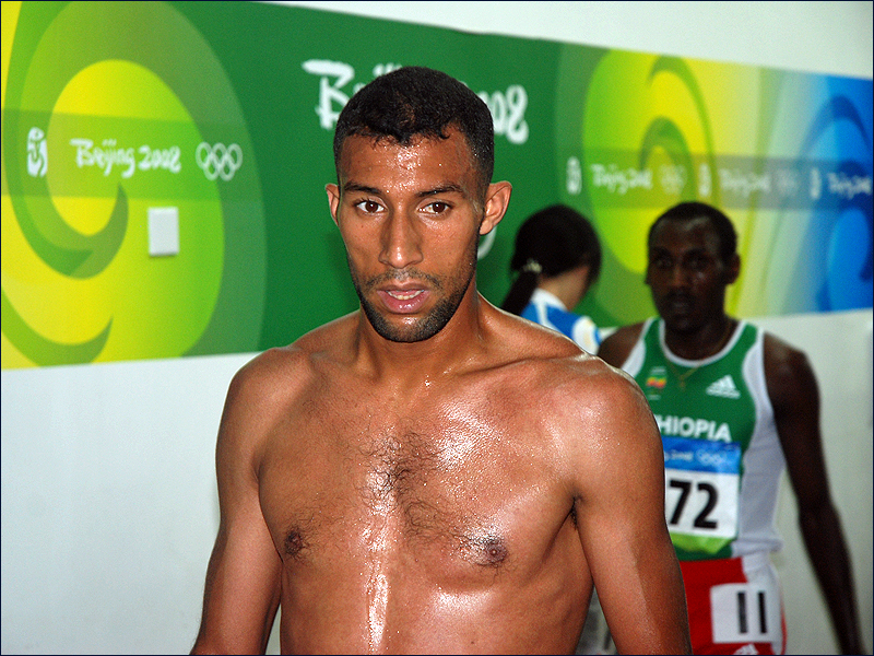 [Magharebia/Mawassi Lahcen] Moroccan runner Youssef Baba catches his breath after finishing tenth out of 12 runners in the men's 1,500m eliminations.